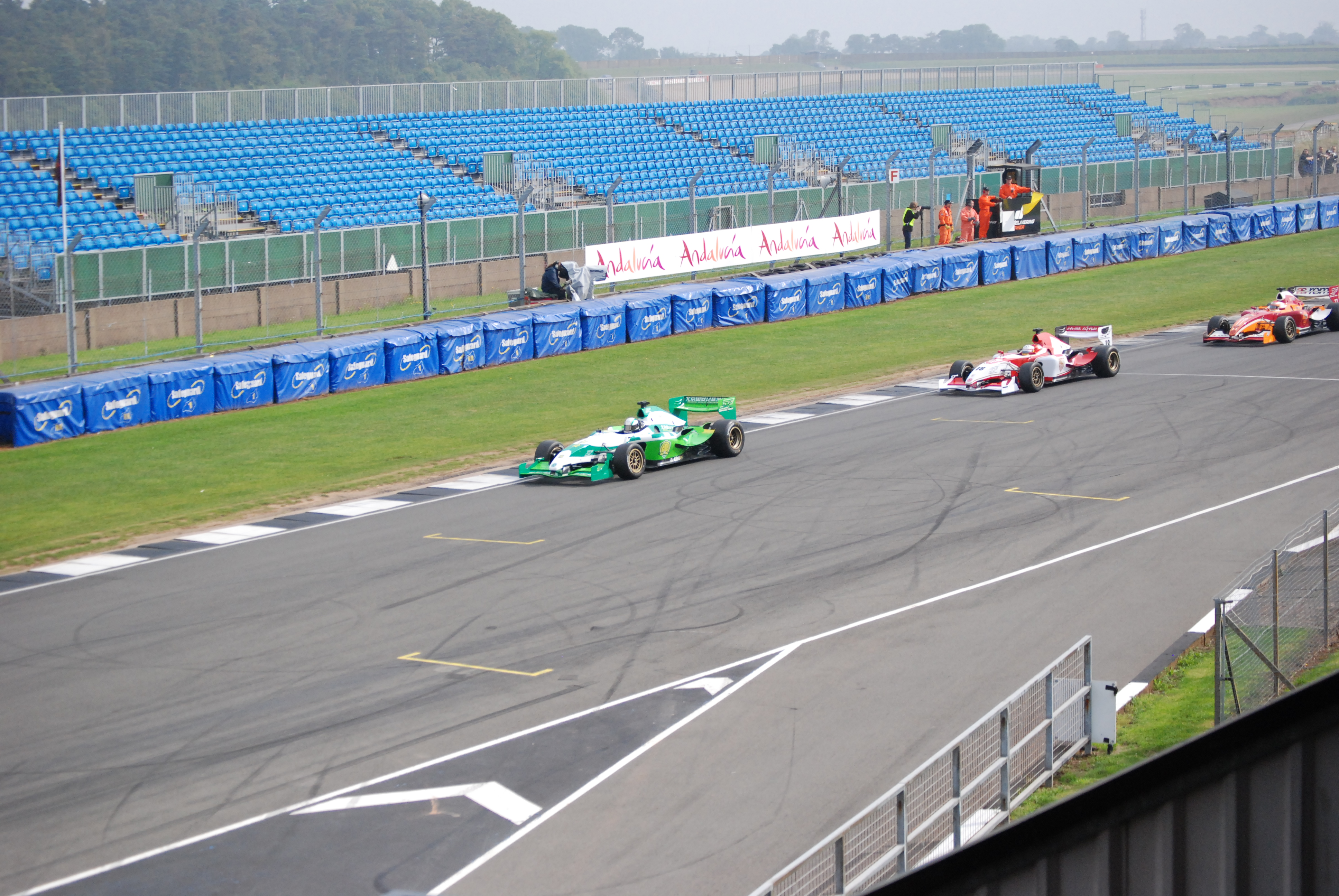 Superleague Formula race 1 at Donington Park - Beijing Guoan leads Sevilla and AS Roma.